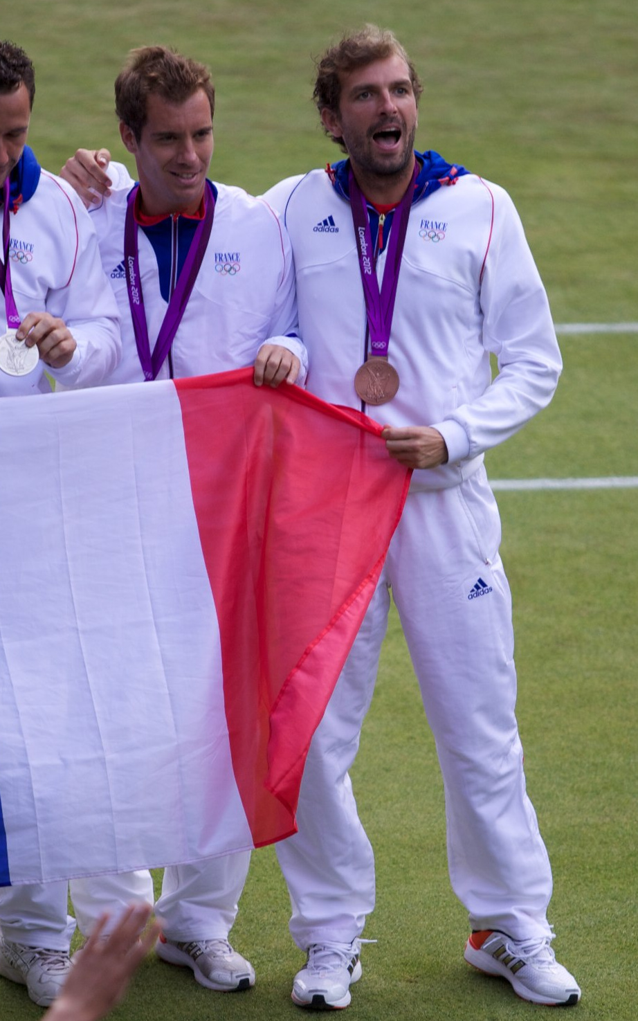 French pairing Richard Gasquet (left) and Julien Benneteau (right), the bronze medallists in the Men's doubles at the 2012 Summer Olympics. Cropped from original image.